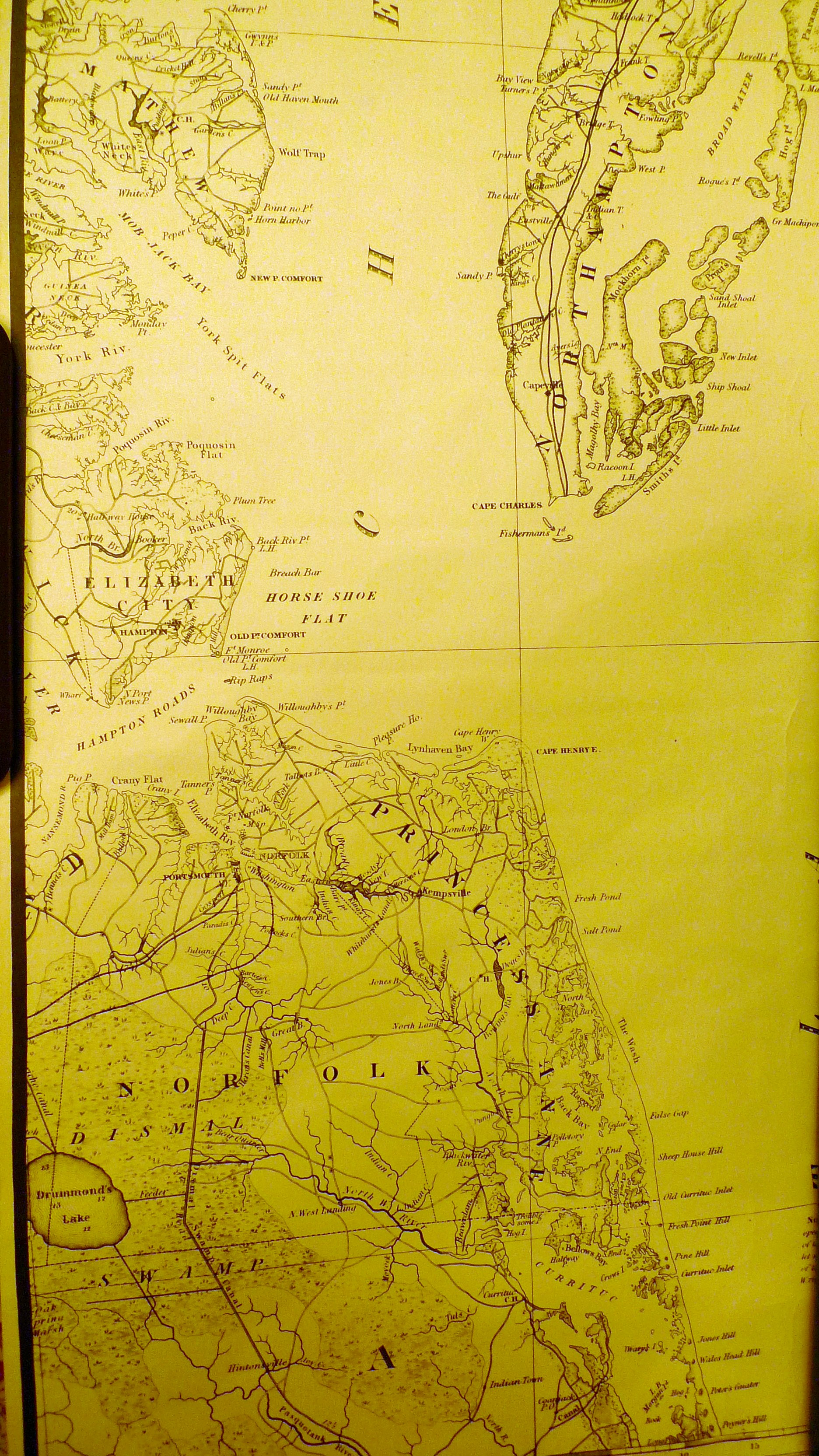 Chesapeake Bay mouth with lower Virginia and the lower Eastern Shore